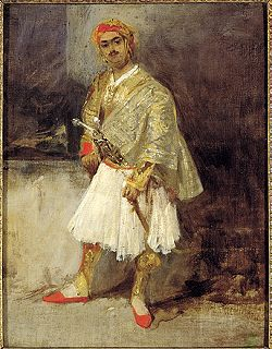 Greek Armatole (irregular fighter). Oil painting, 1825-6. 0.33x0.26 m. Gift of Damianos Kyriazis. Code number in the Museum: ΓΕ 11197